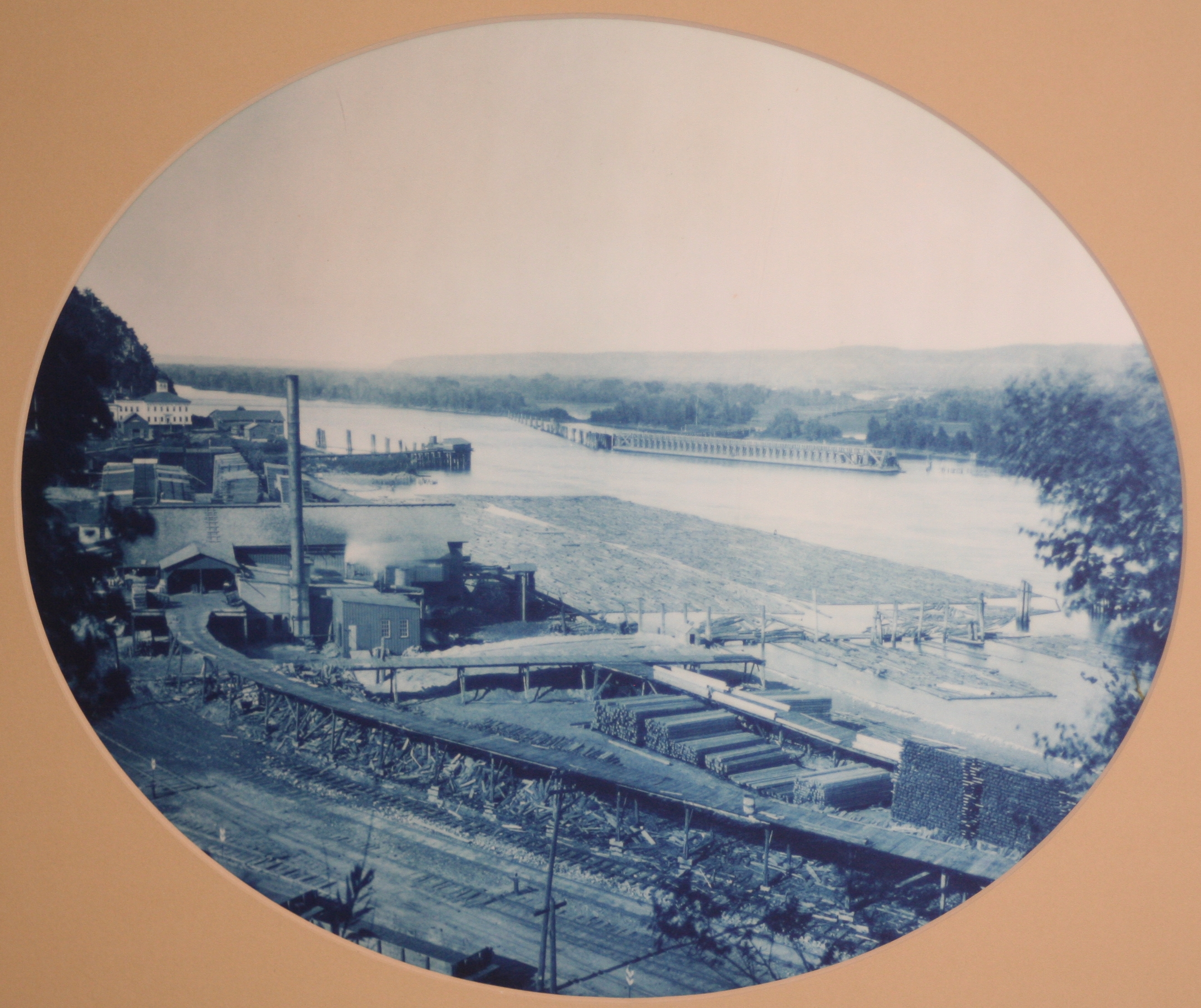 "Old Pontoon Bridge, North McGregor, Iowa 1885" at Henry Peter Bosse "Views on the Mississippi" exhibition, Ramsey County Historical Society, Landmark Center, Saint Paul, Minnesota. Photo of a modern reproduction of a Bosse photo from a volume found by the U.S. Corps of Engineers aboard the Dredge William A. Thompson.